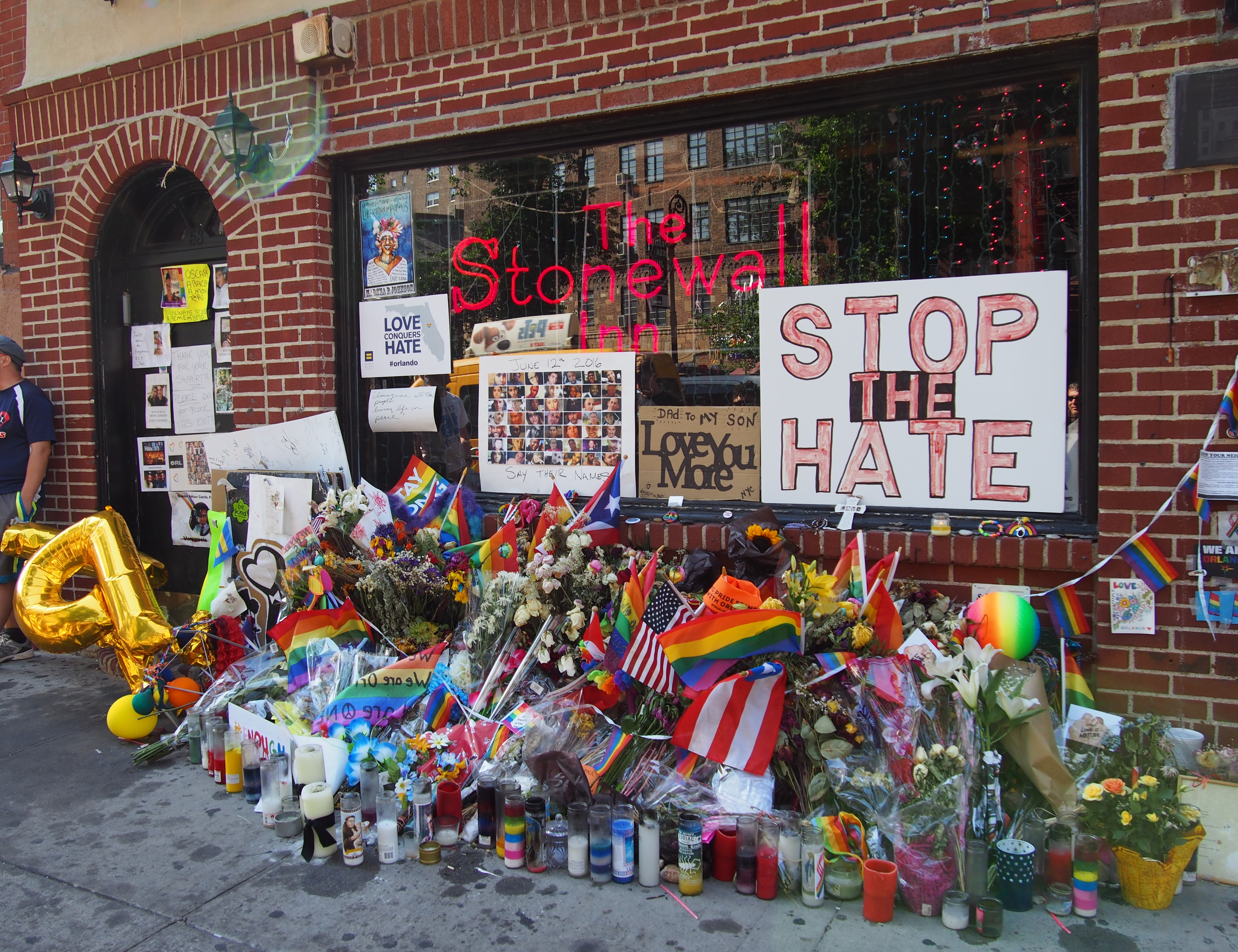 Stonewall Inn, a gay bar on Christopher Street in Manhattan's Greenwich Village. A 1969 police raid here led to the Stonewall riots, one of the most important events in the history of LGBT rights (and the history of the United States). This picture was taken on pride weekend in 2016, the day after President Obama announced the Stonewall National Monument, and less than two weeks after the Pulse nightclub shooting in Orlando.